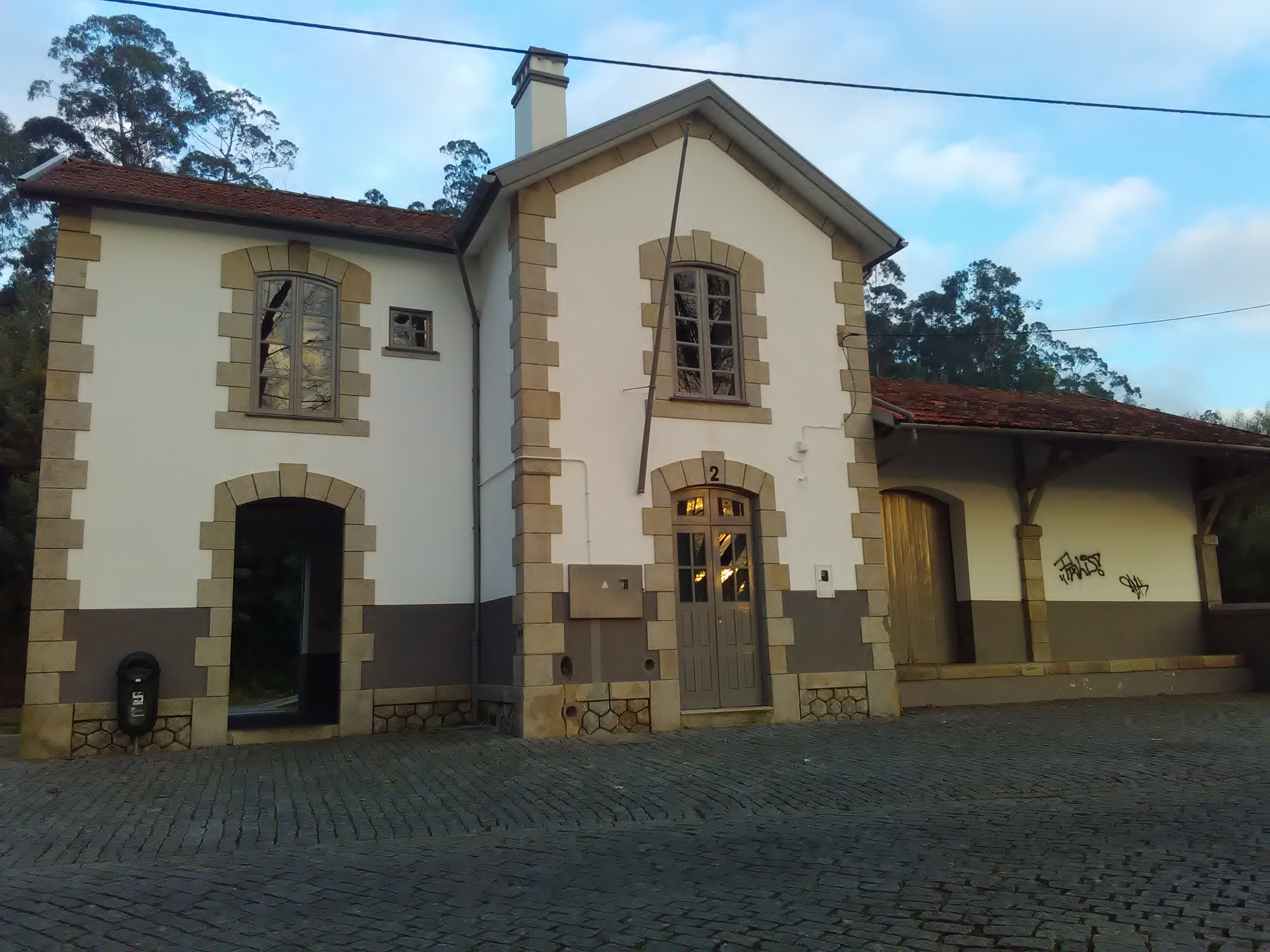 Vila da Feira station, Vouga Railway (Portugal)